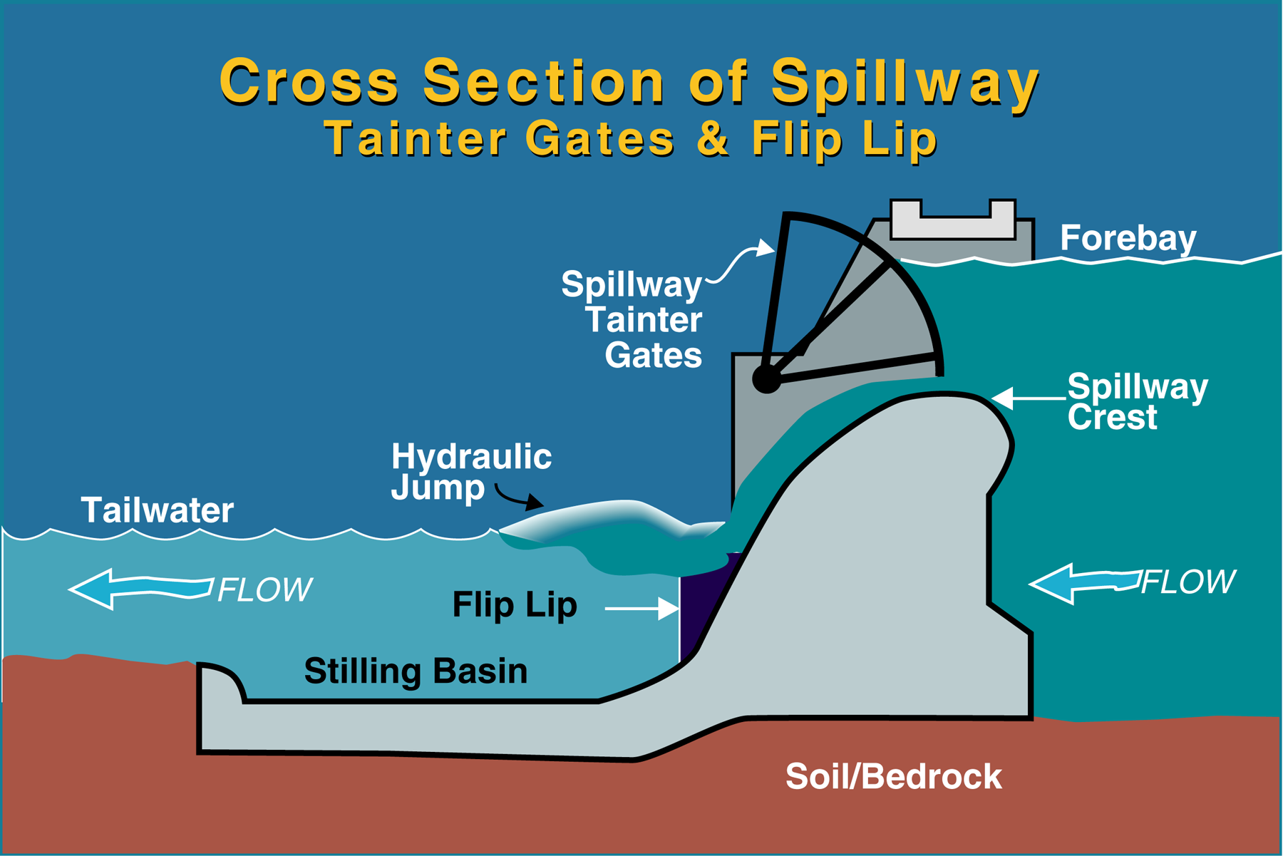 Cutaway cross-section of the spillway at Bonneville Dam with tainter gates and flip lip.